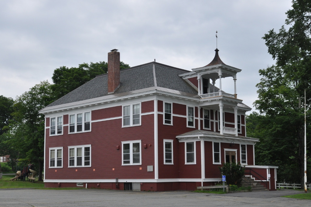 Randolph Center Historic District, Randolph, Vermont. A former school building.